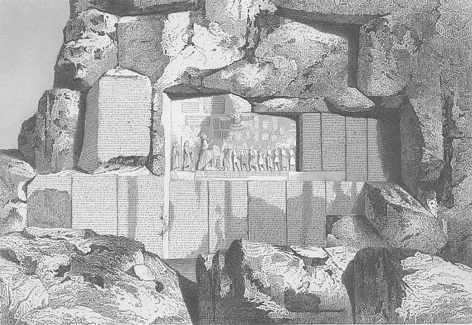 "Rock Inscription at Bisotun, Persia," a steel engraving, 1860 Source: ebay, Aug. 2005 An excerpt from the original description: "Bisotun (Bisitun) is a village and precipitous rock situated at the foot of the Zagros Mountains in the Kermanshah region of Iran. In ancient times Bisitun was on the old road from Ecbatana, capital of ancient Media, to Babylon, and it was on that scarp that the Achaemenid king Darius I the Great (reigned 522-486 BC) placed his famous trilingual inscription, the decipherment of which provided an important key for the study of the cuneiform script. The inscription and the accompanying bas-relief were carved in a difficult, though not inaccessible, rock face. Written in Babylonian, Old Persian, and Elamite, the inscription records the way in which Darius, after the death of Cambyses II (reigned 529-522 BC), killed the usurper Gaumata, defeated the rebels, and assumed the throne. The organization of the Persian territories into satrapies or provinces is also recorded. The inscriptions were first reached and copied (1835-47) by Henry Rawlinson, an officer in the East India Company working in Persia. Rawlinson published his findings in 1849 and virtually accomplished the task of deciphering the Old Persian cuneiform texts. Largely because of Rawlinson's success with the Old Persian text, the Babylonian and Elamite versions were also soon translated. Later efforts at Bisitun by various archaeological groups have clarified some of Rawlinson's readings, more accurately measured gaps in the text, and helped to determine when the events took place (c. autumn 522-spring 520 BC). NOTE: the size of this complex of tablets was 100 x 150 feet."